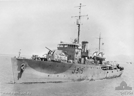 AWM caption : At Sea. c. 1944. Australian corvette HMAS Wagga which operated around islands north of New Guinea.